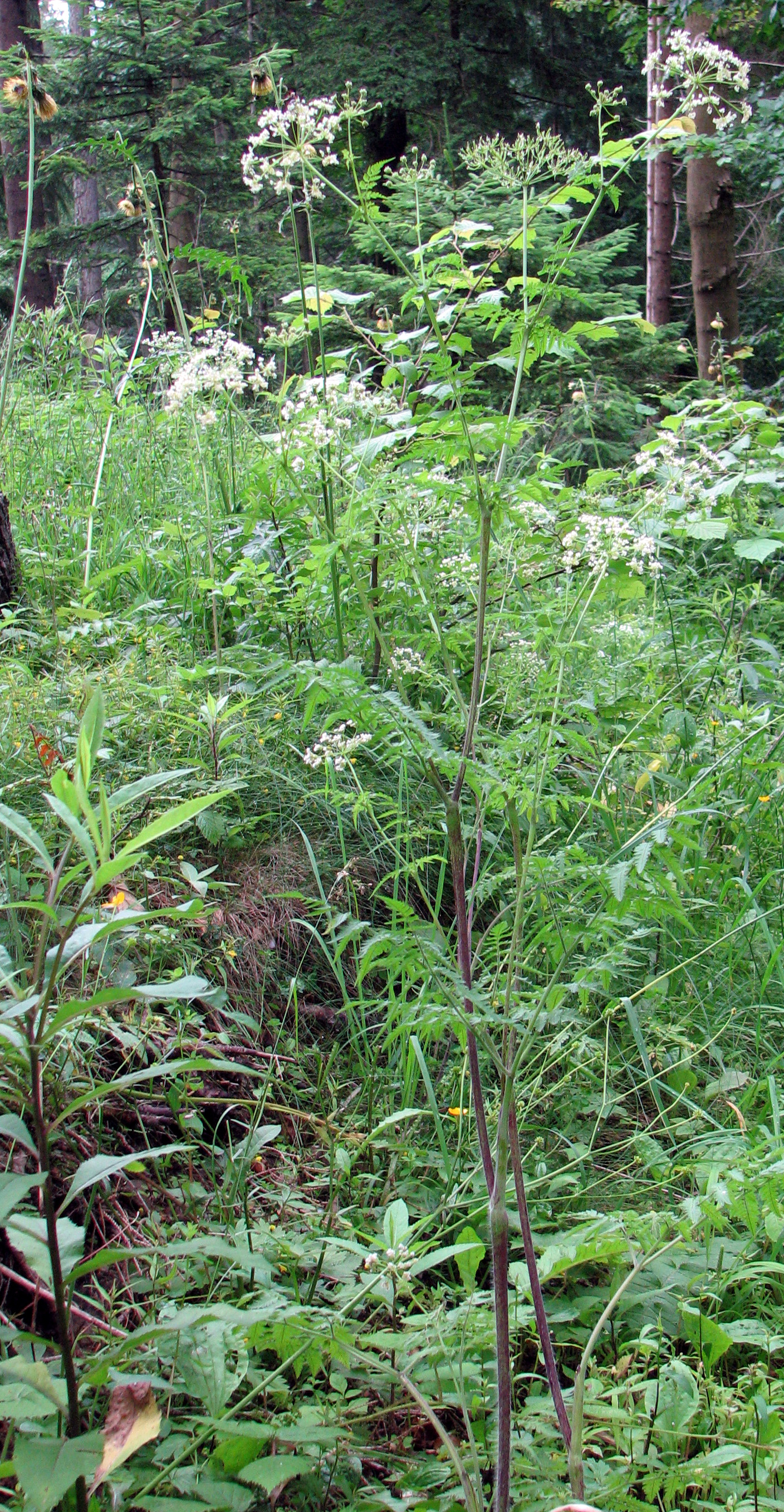 Chaerophyllum aureum - habitus